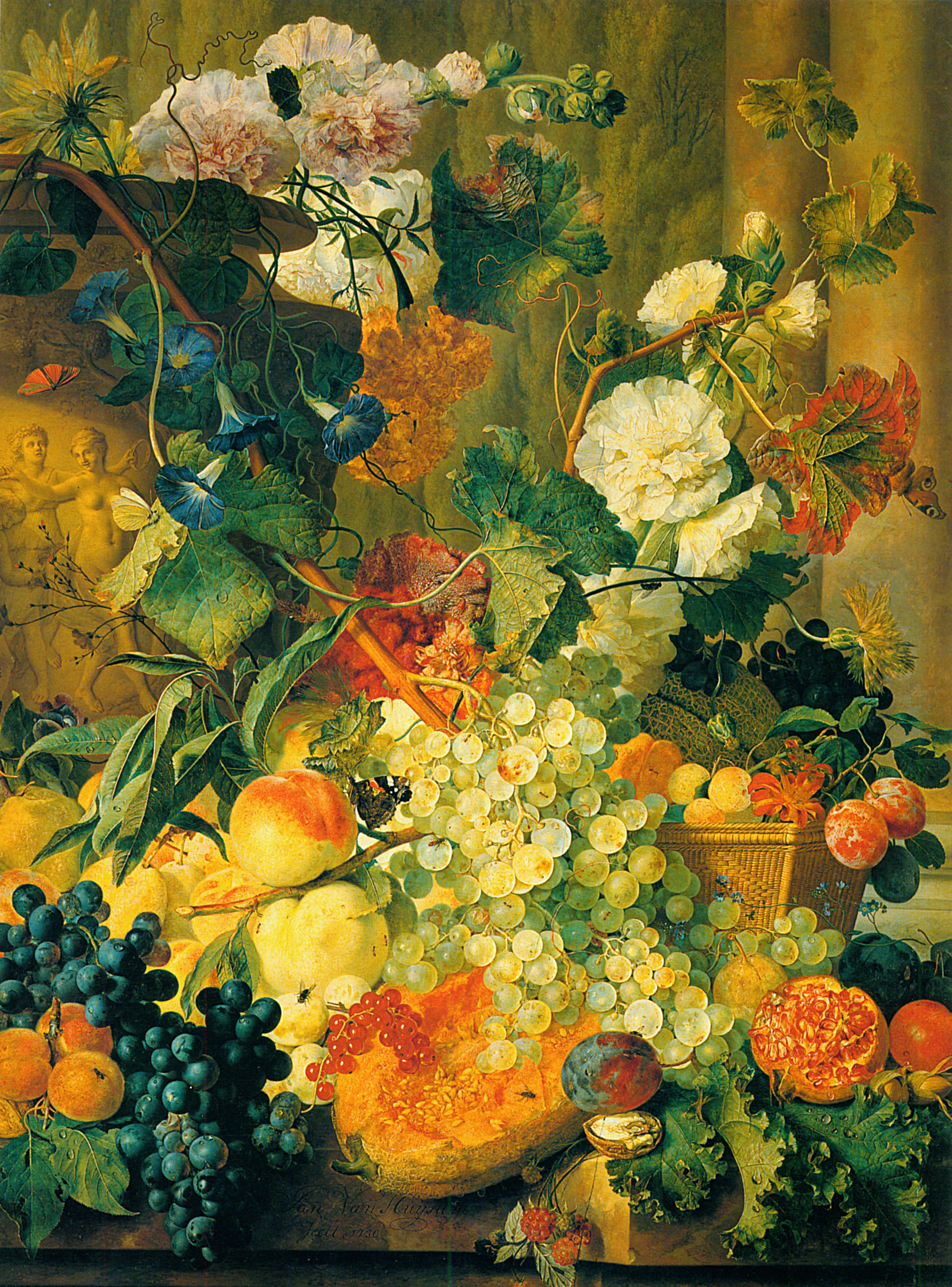 Pink and white double Hollyhocks, Morning Glory, Marigolds, Cockscombs, Passion Flowers and Forget-Me-Nots surrounding a sculpted Urn, with a Melon Plums in a wicker Basket, Peaches, Plums, a split Melon, Raspberries, Redcurrants, Walnuts, a Pomegranite, Apricots and other Fruit on a stone Ledge, with a Cabbage White, Red Admiral and Painted Lady Butterflies and other insects